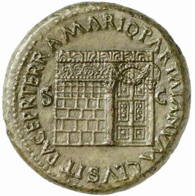 Nero. 54-68 AD. :Sestertius (Orichalcum, 25.32 g 7), Lugdunum, 65. ::: PACE P R TERRA MARIQ PARTA IANVM CLVSIT S C Temple of Janus with ornate roof decoration, latticed window on the left and with a garland hung across the closed double doors to the right. :BNC 319. BN 73. Cohen 146. RIC 438. WCN 419. :A fine and clear example with a smooth brown patina, a good portrait and a detailed view of the temple of Janus. :Extremely fine. :From the Patrick H. C. Tan Collection.